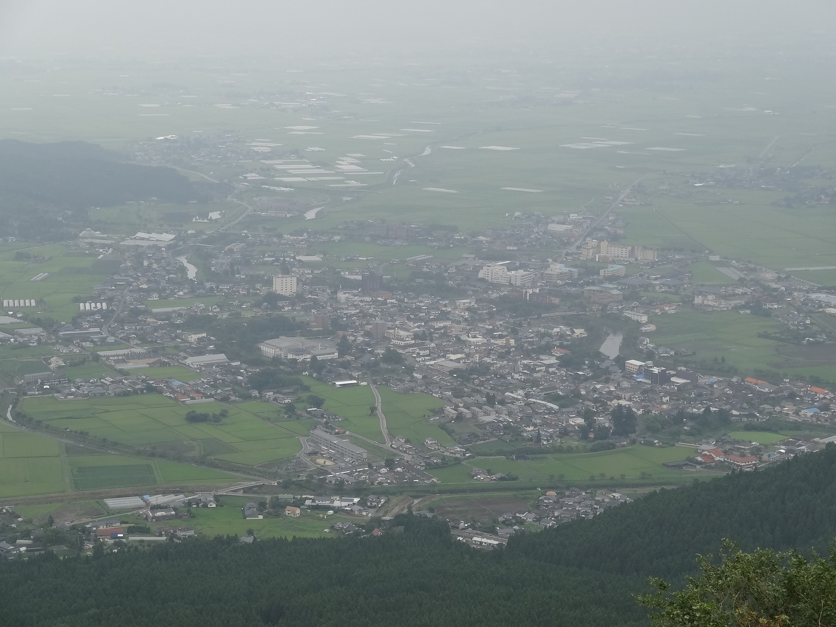 Uchinomaki District, Aso City, Kumamoto Prefecture, Japan.